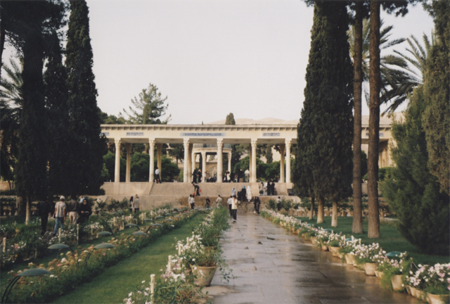 Scanned from photo I took